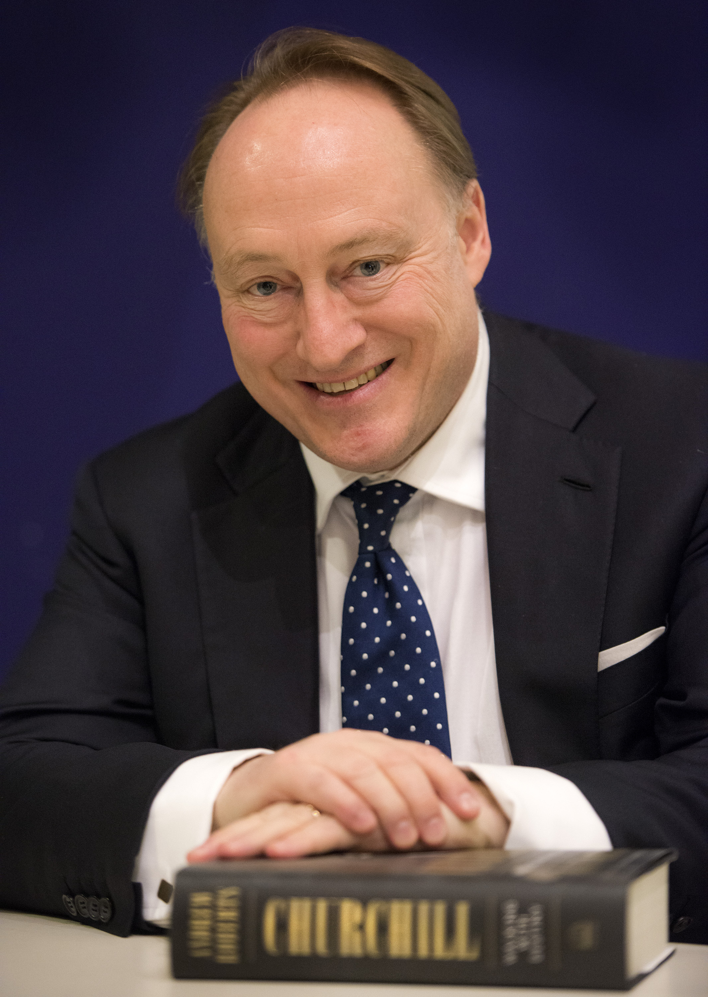 On Monday, January 28, 2019, the LBJ Foundation hosted a conversation with Andrew Roberts, a British historian and author of the recent bestseller Churchill: Walking with Destiny.